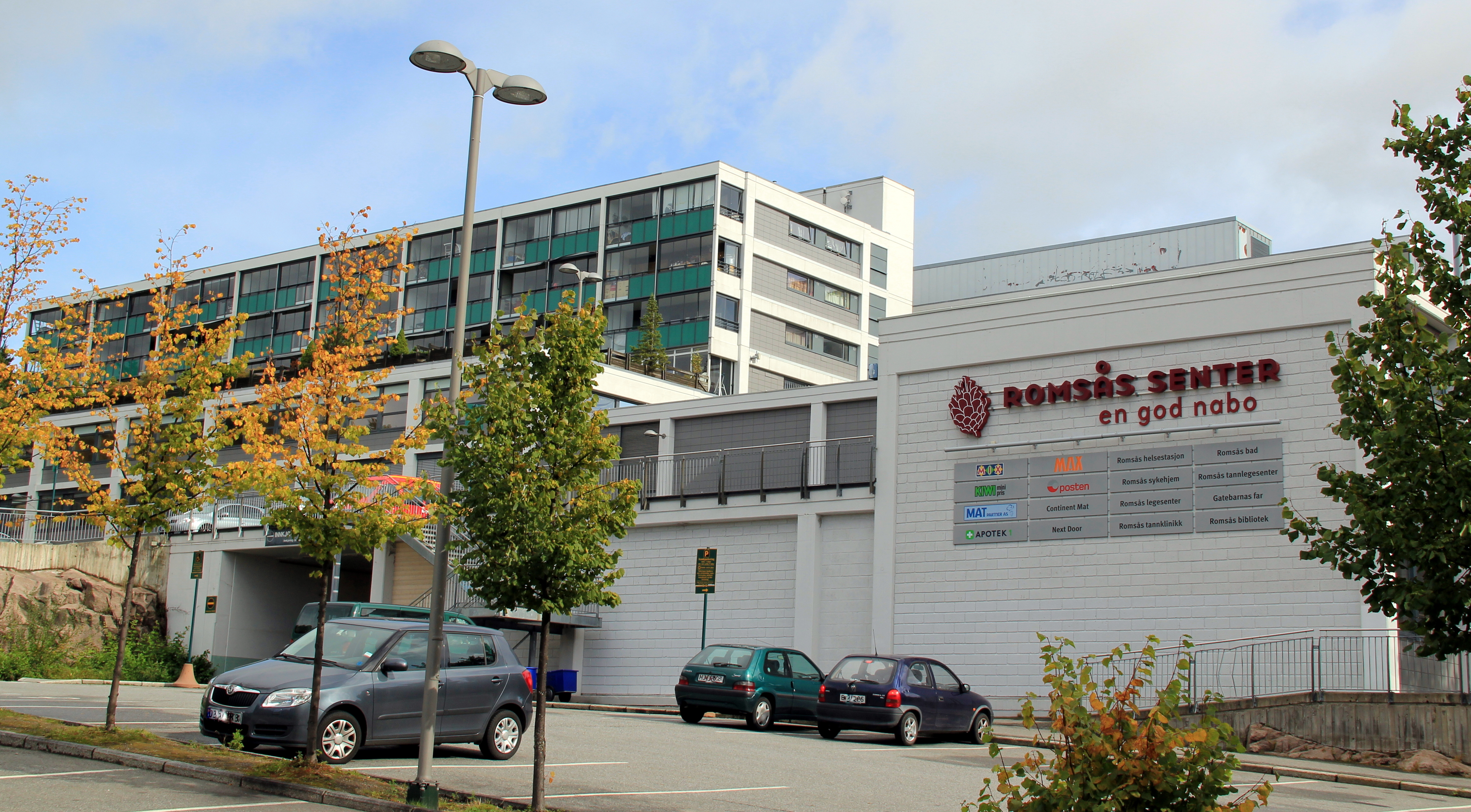 Romsås senter